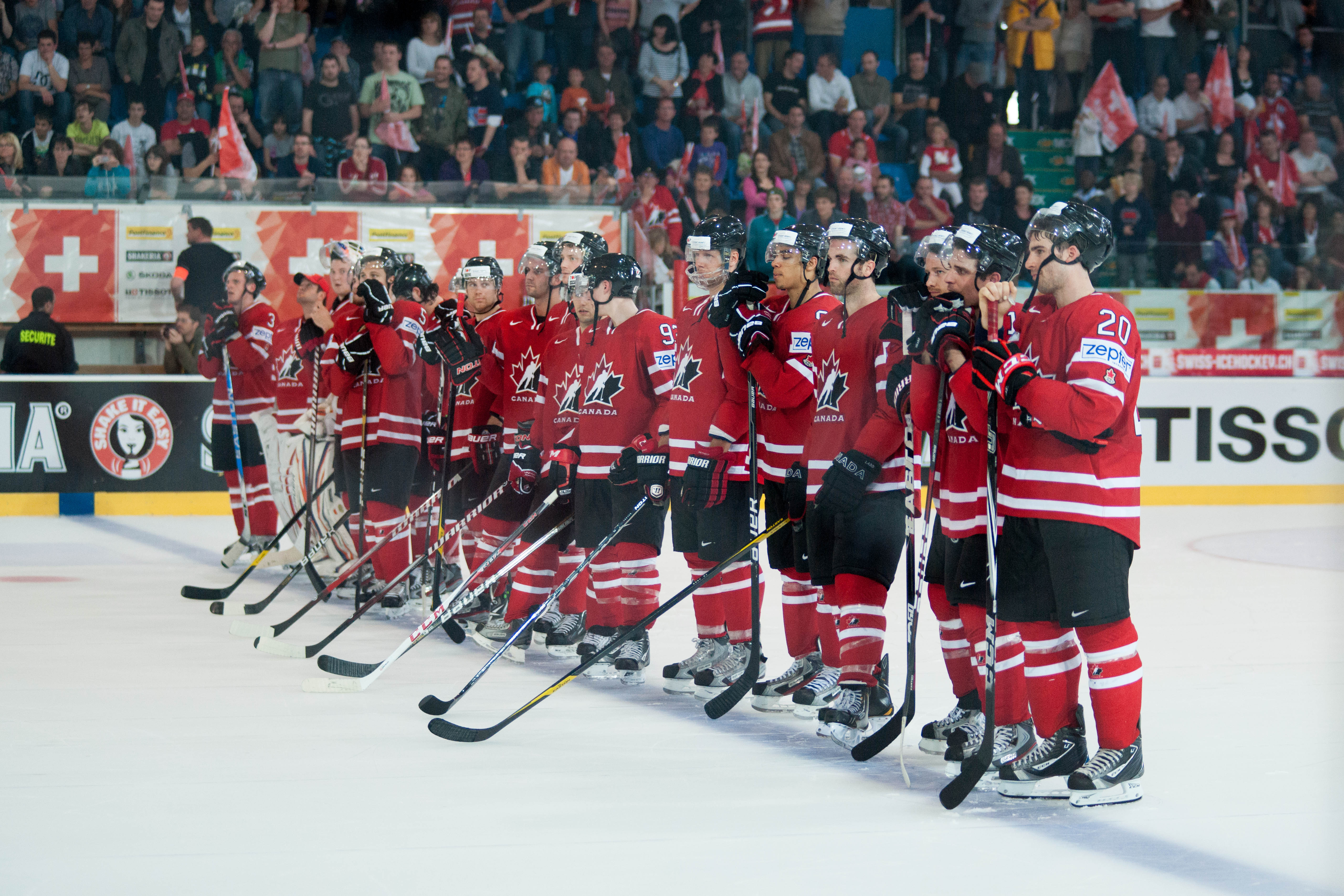 Switzerland vs. Canada, 29th April 2012